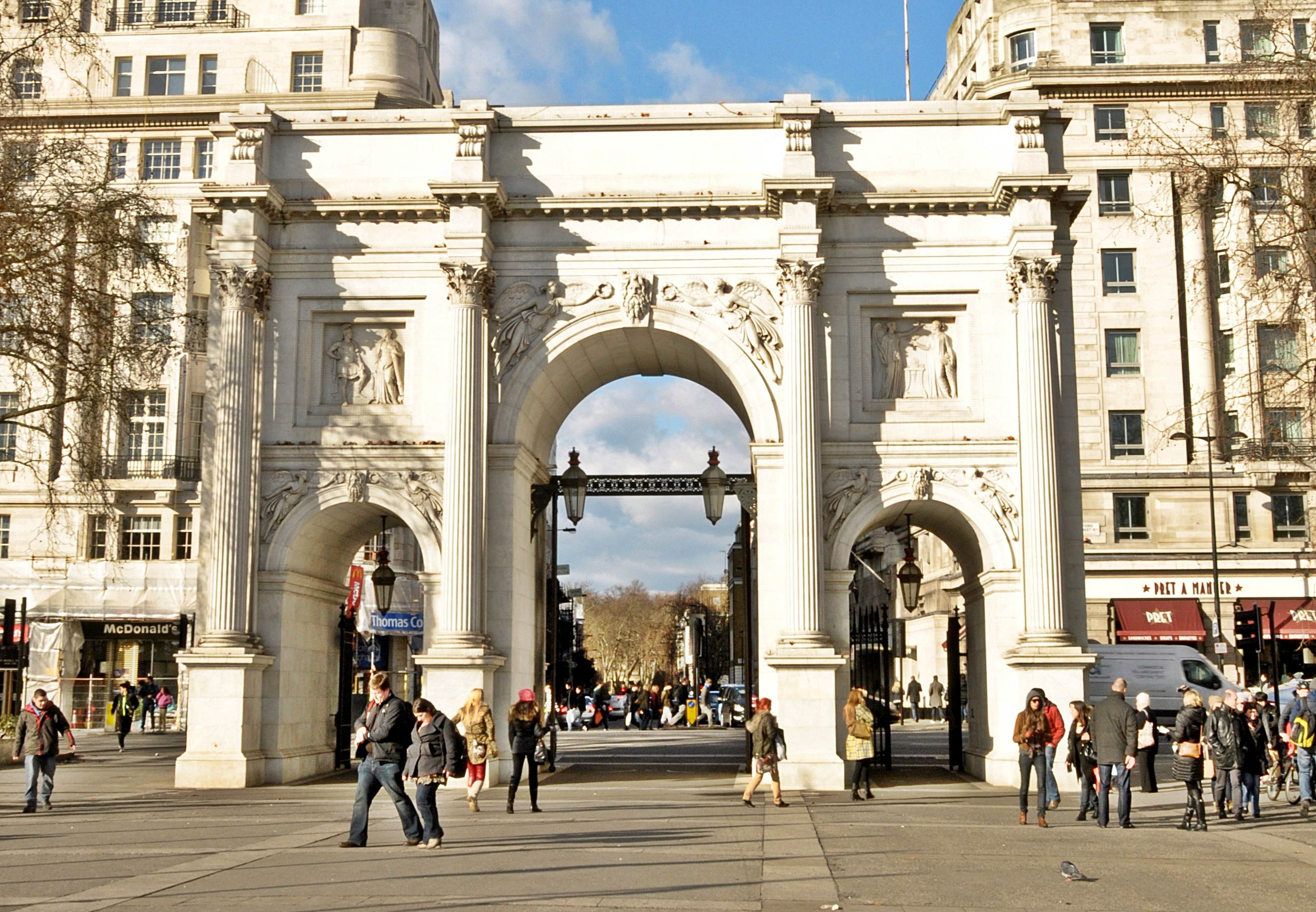 Marble Arch, ceremonial arch designed by John Nash, located at the north-east corner of Hyde Park in London